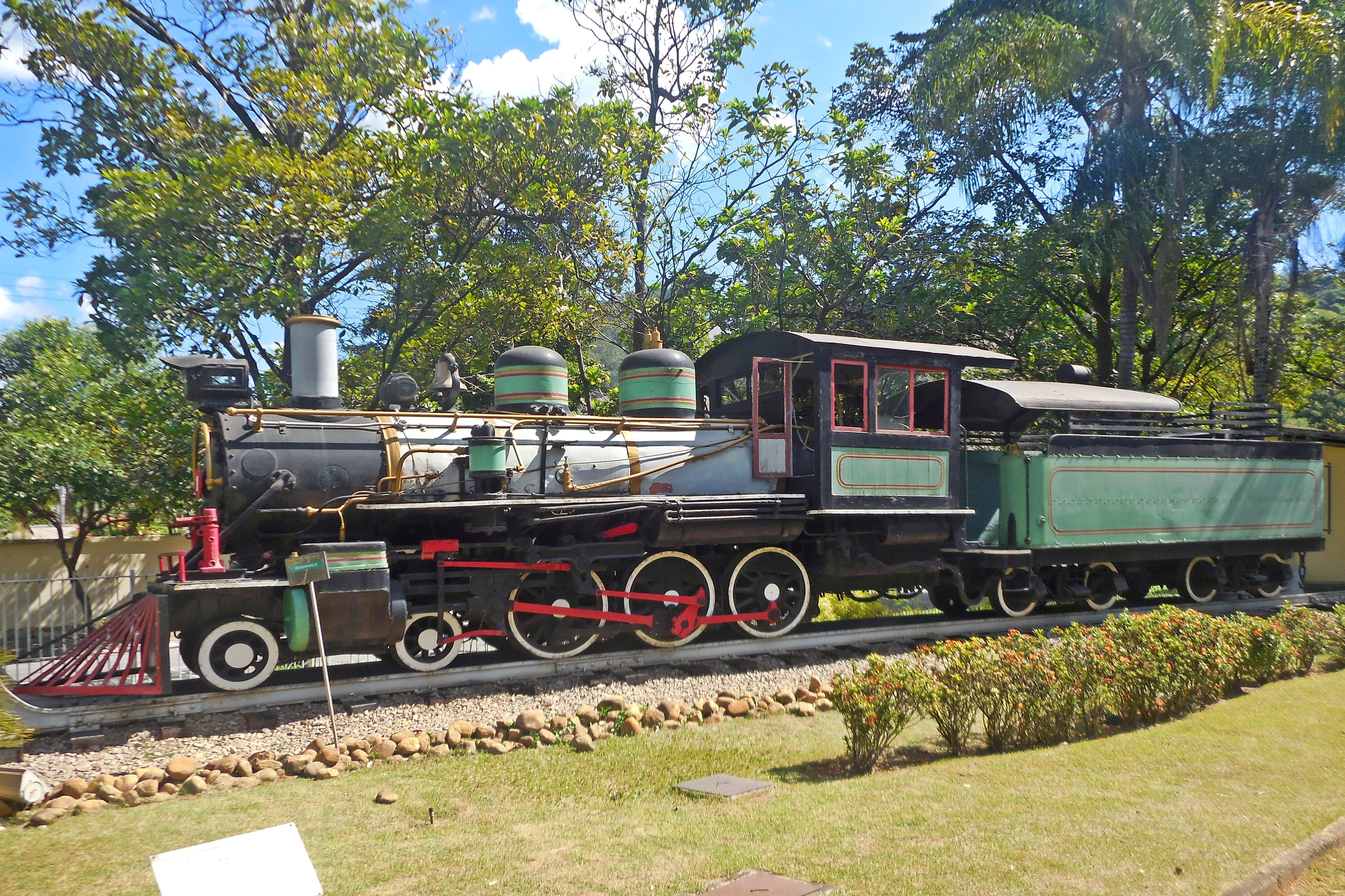 The first steam locomotive used by the Acesita (now Aperam South America), in Timóteo, Minas Gerais, Brazil.